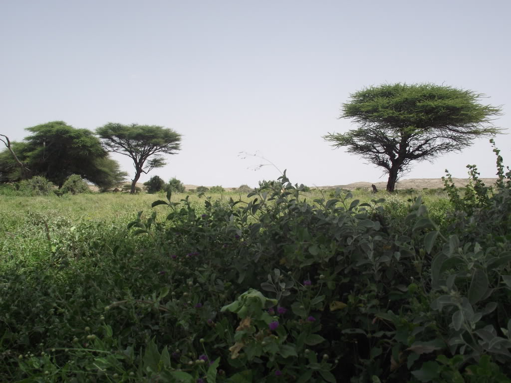 Nugal valley